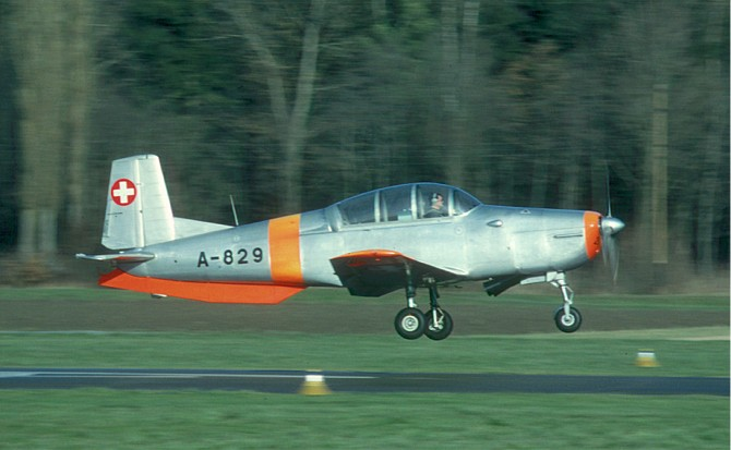 A Swiss Flugwaffe Pilatus P-3, A-829 during Bern Belpmoos Airshow in 1983.